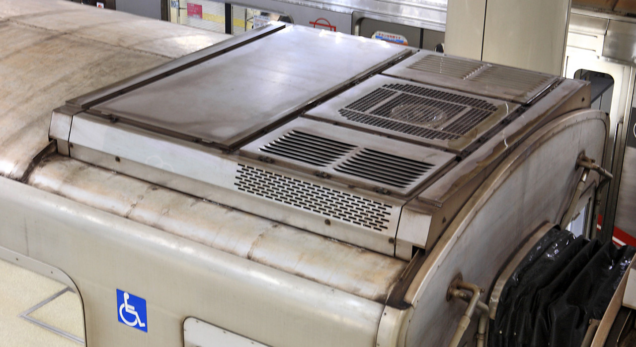 A cooler unit of Osaka Municipal Subway 10 series EMU, at Tennōji Station Midōsuji Line.